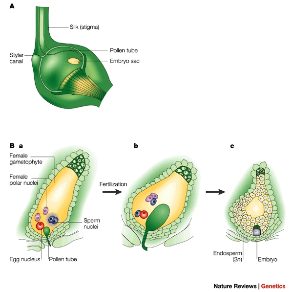 Kiesselbach, T. A. The structure and reproduction of corn. Nebr. Agric. Exp. Stn Annu. Rep. 161, 1–96 (1949).